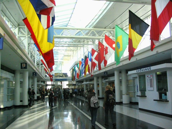 O'Hare Airport's International Terminal.